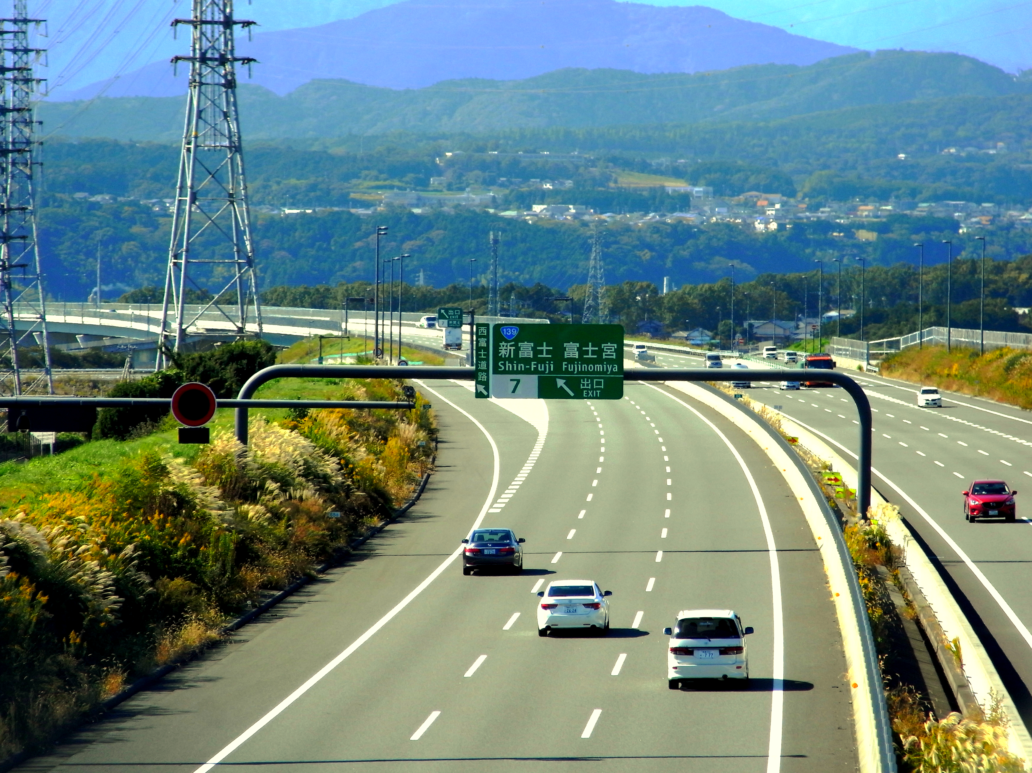 New Tōmei Expressway Shin-Fuji Interchange Outbound Exit